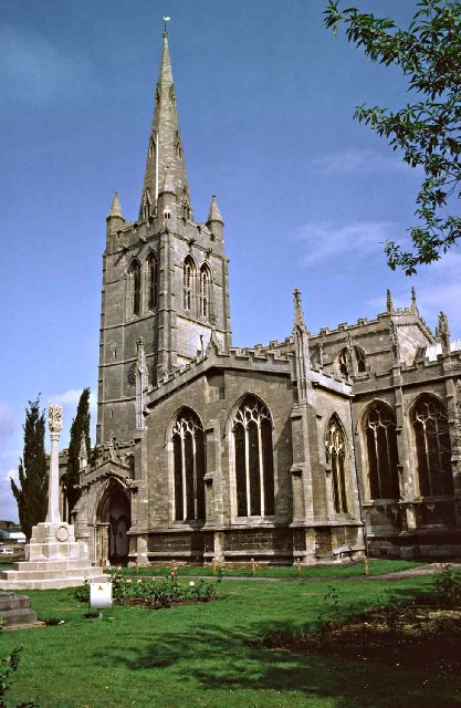 All Saints Church, Oakham. All Saints Church with part of the churchyard.